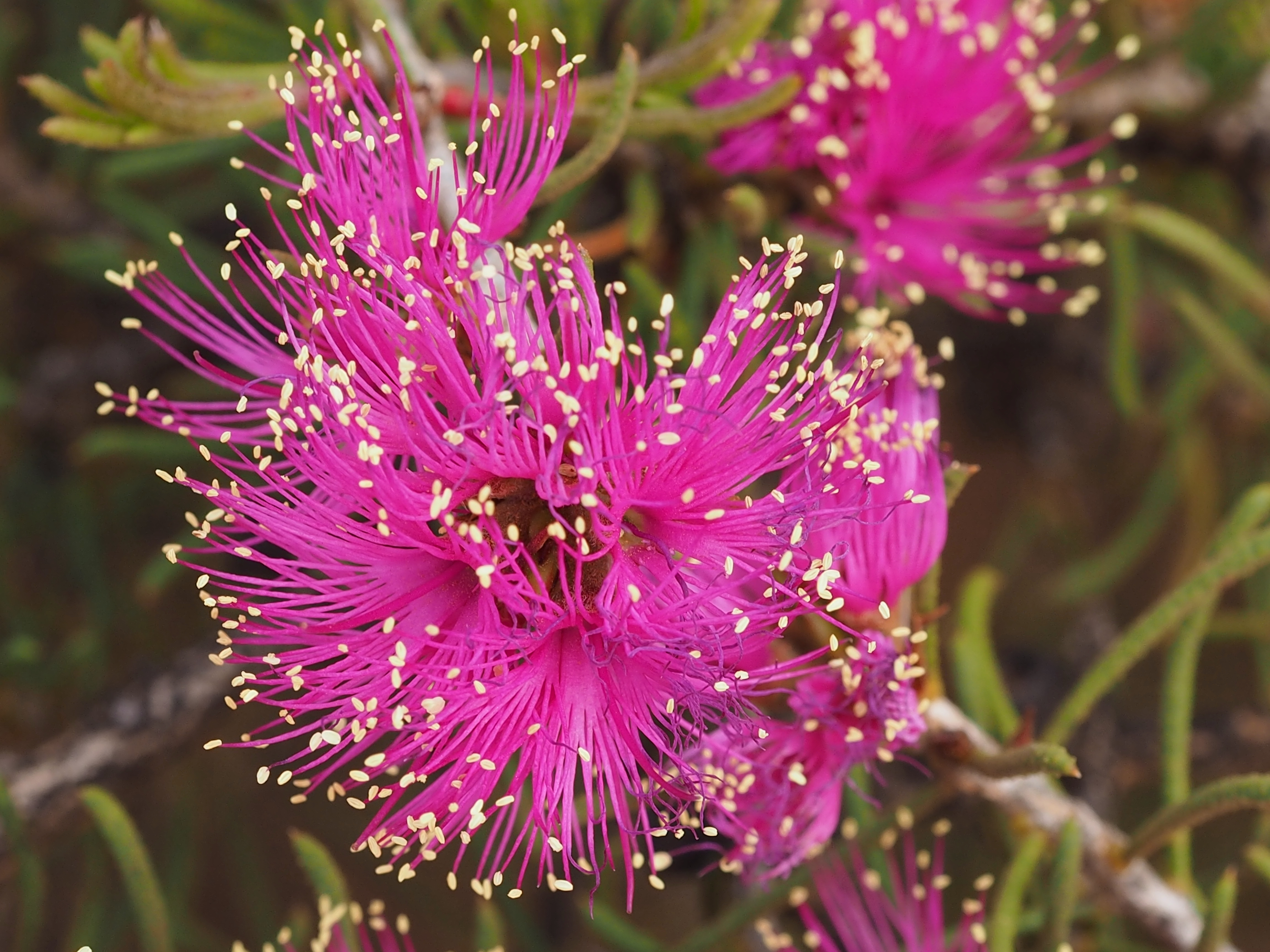 Close up of flower of Melaleuca calyptroides in Watheroo National Park